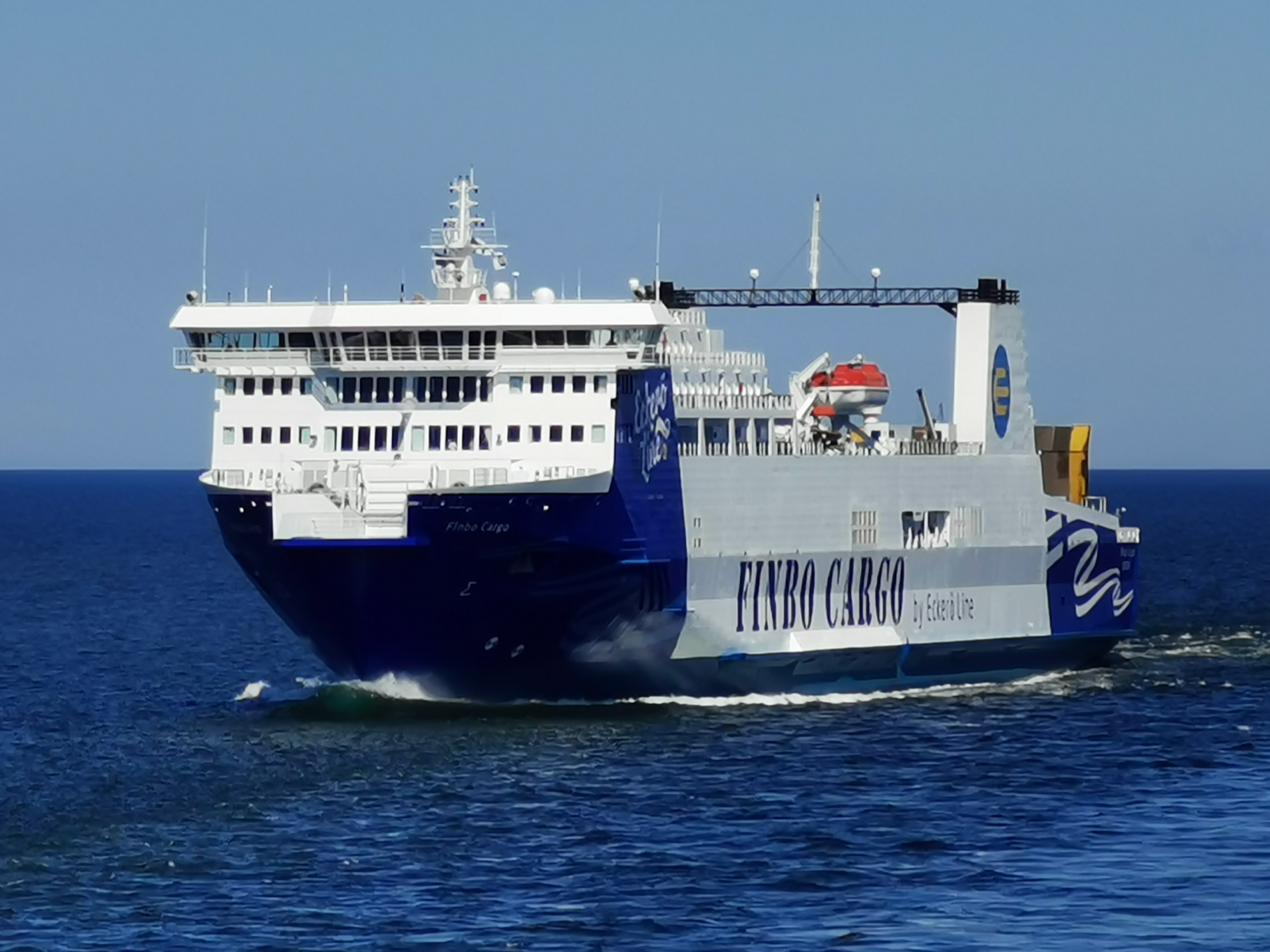 MS Finbo cargo was spotted from MS Viking Xprs en route from Helsinki to Tallinn, on 18 July, 2020